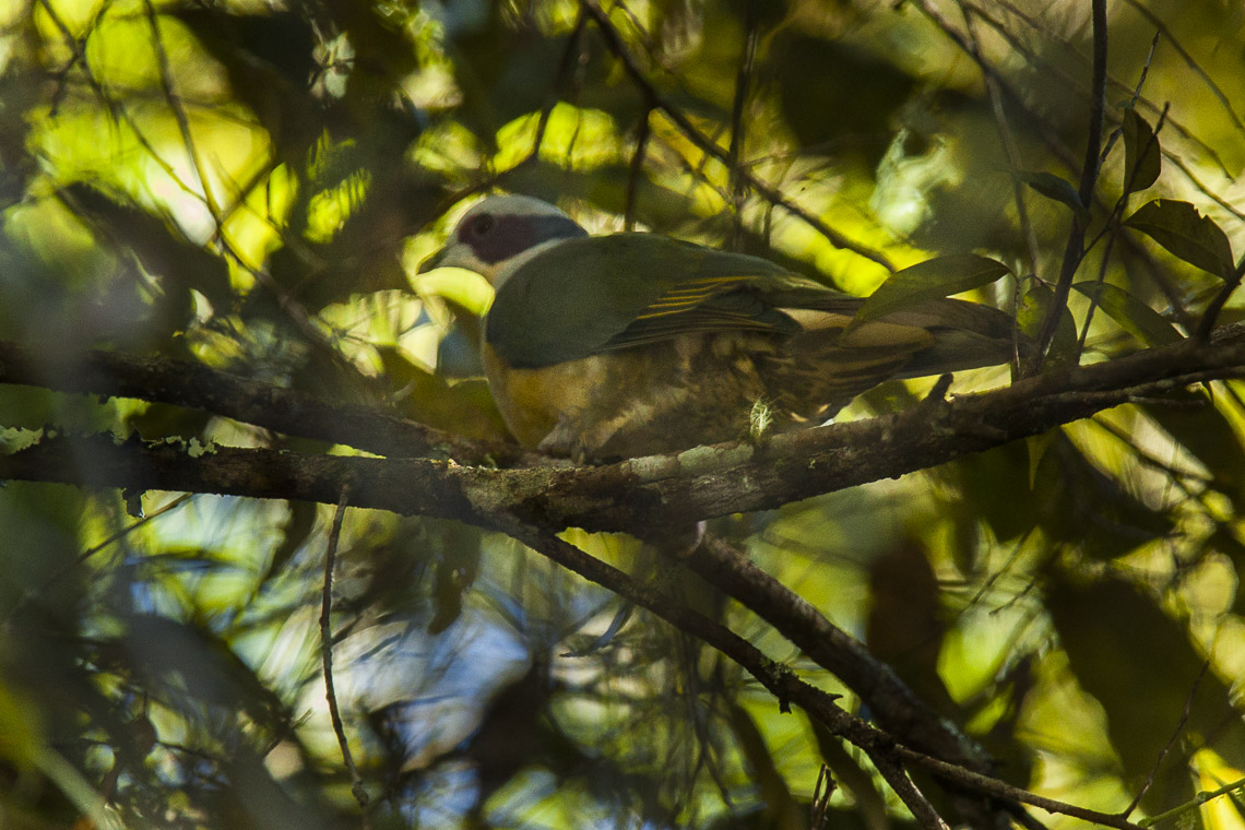 Red-eared fruit dove (Ptilinopus fischeri) in Sulawesi, Indonesia